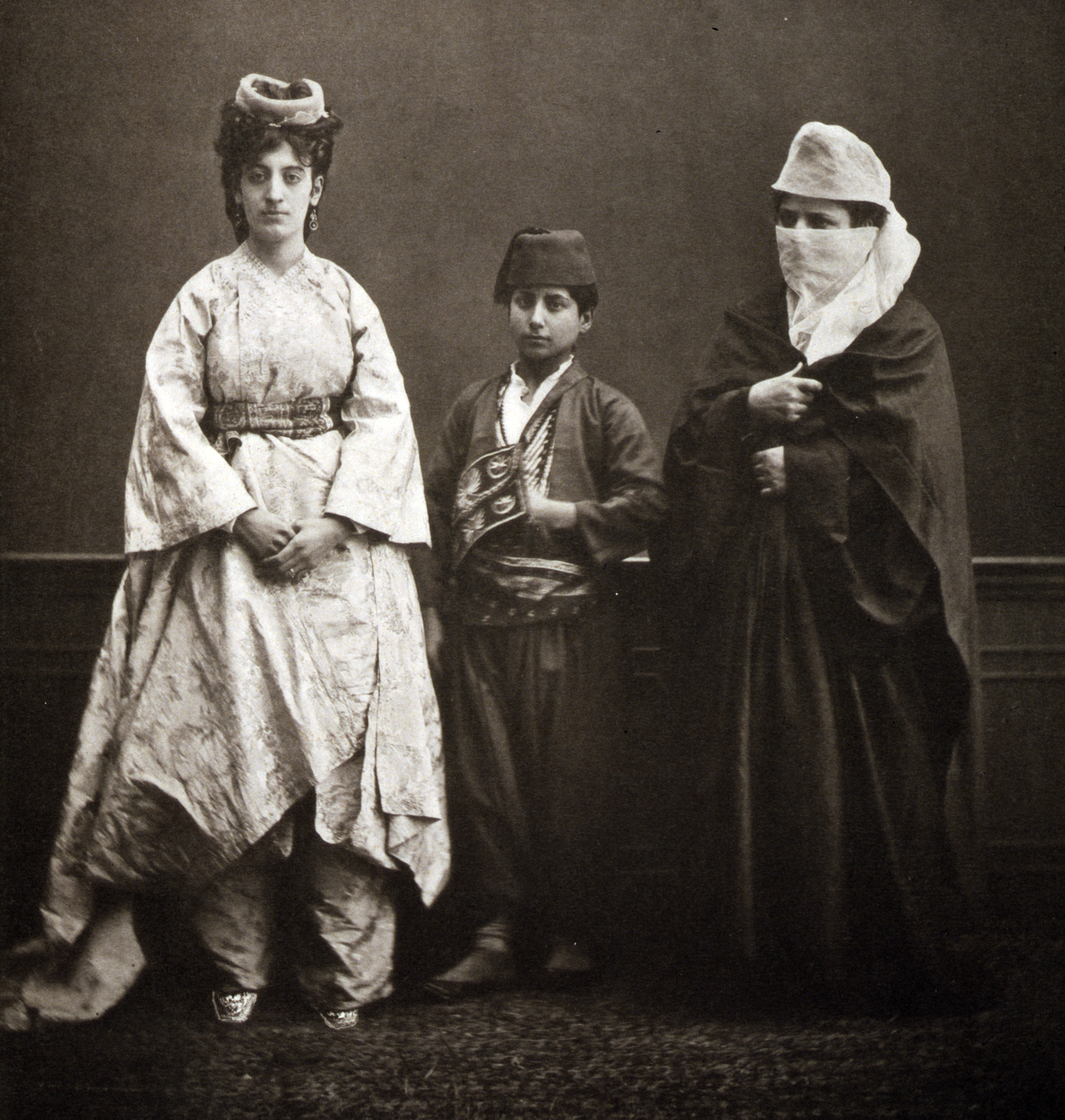 (1) Turkish woman of Constantinople (İstanbul) wearing indoor dress; (2) Married Turkish woman of Constantinople (İstanbul) wearing outdoor dress; and (3) Turkish schoolboy. From Les Costumes Populaires De La Turquie, taken by French photographer Pascal Sebah at the universal exposition in Vienna, 1873.